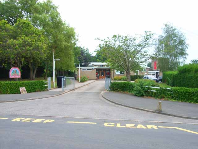 St Peter's Church of England First School, Marchington.